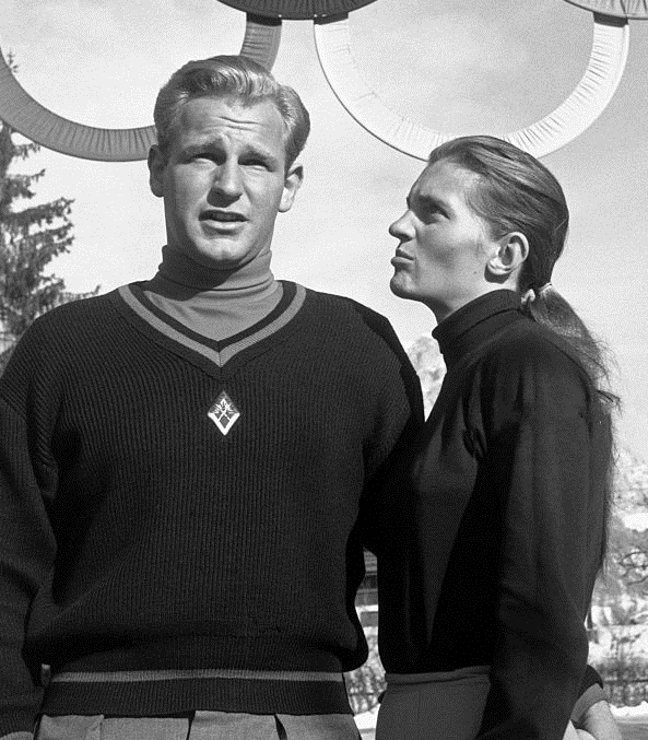 American alpine ski racer Andrea Mead Lawrence and her husband, American alpine ski racer David J. Lawrence, walking together in the streets of Cortina d'Ampezzo in a break during the VII Olympic Winter Games. Cortina d'Ampezzo, 1956